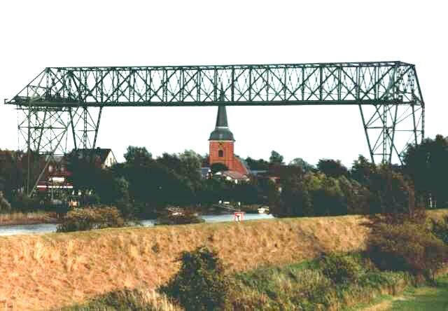 Osten, Lower Saxony, Germany, with transporter bridge and St. Petri Church, seen from Hemmoor